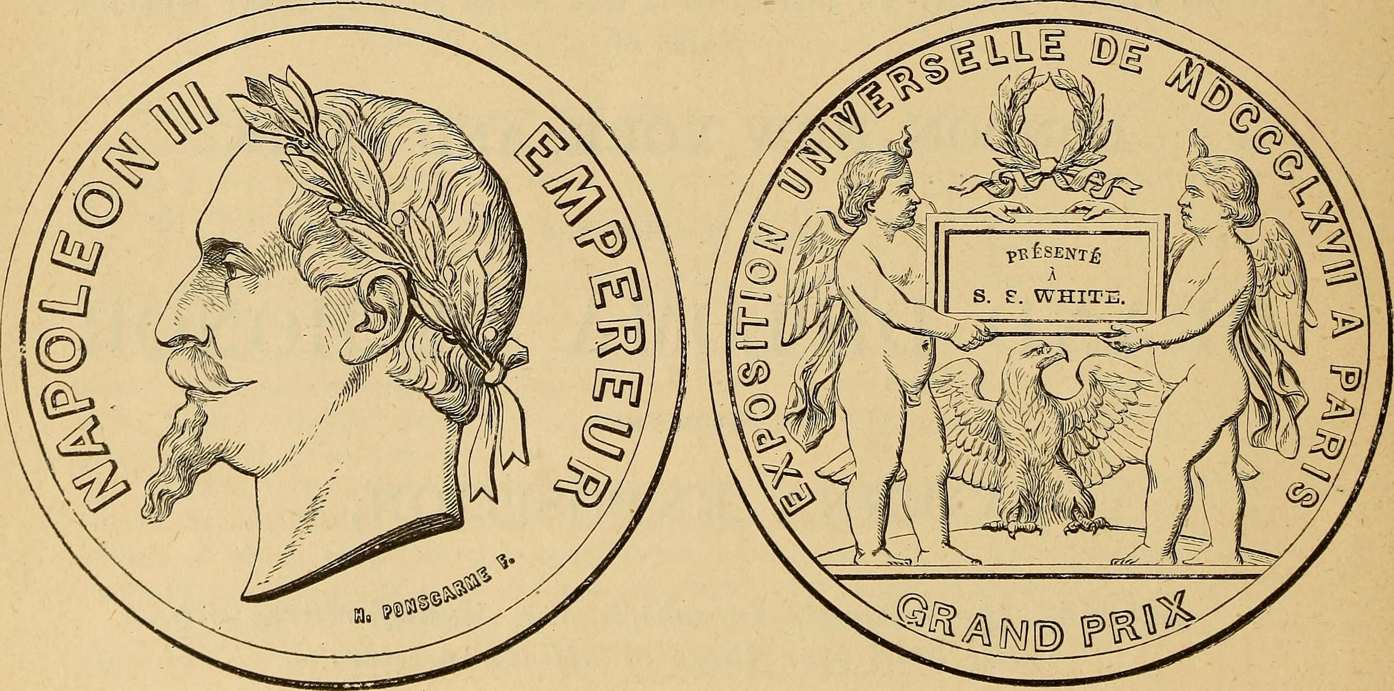 Title: Catalogue of dental materials, furniture, instruments, etc., for sale Year: 1876 (1870s) Authors: S.S. White Dental Manufacturing Company Subjects: Dental instruments and apparatus Dental Equipment Dental Instruments Dental Instruments Publisher: Philadelphia : White Text Appearing Before Image: ' Text Appearing After Image: DENTAL CATALOGUE. 13